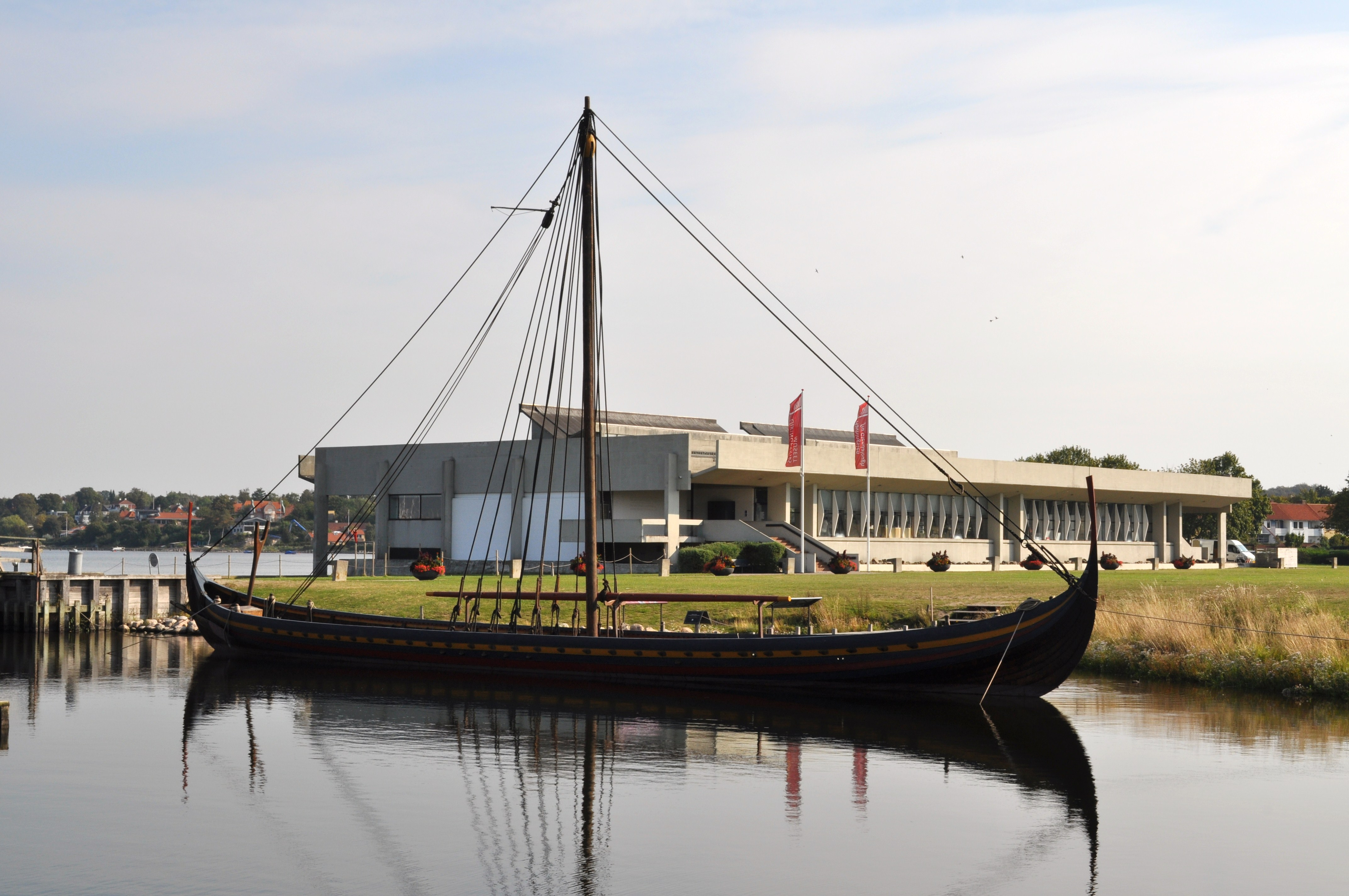 Viking Ship Museum Roskilde, Havhingsten in front